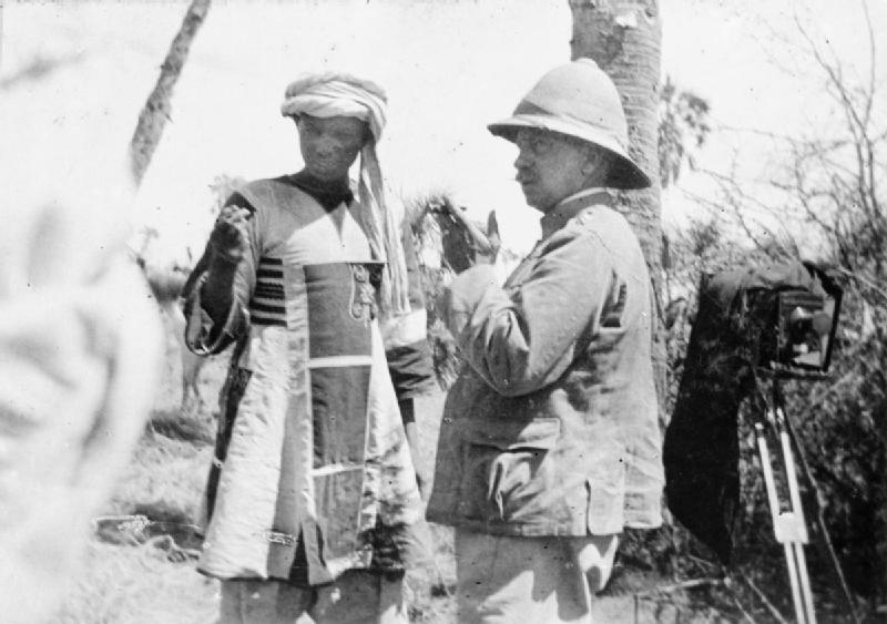 General Kitchener and the Anglo-egyptian Nile Campaign, 1898 The defeated leader of the Sudanese (Dervish) forces at the Battle of Atbara, Emir Mahmoud, is interrogated by Director of Military Intelligence, Colonel Sir Francis Wingate after being captured. Note the camera mounted on a tripod in the background.